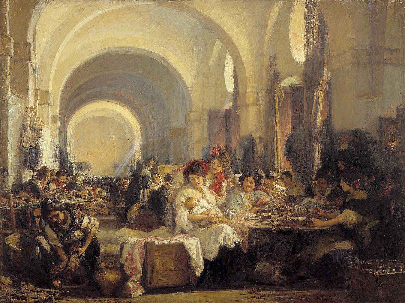 Las Cigarerras (Cigar Makers)